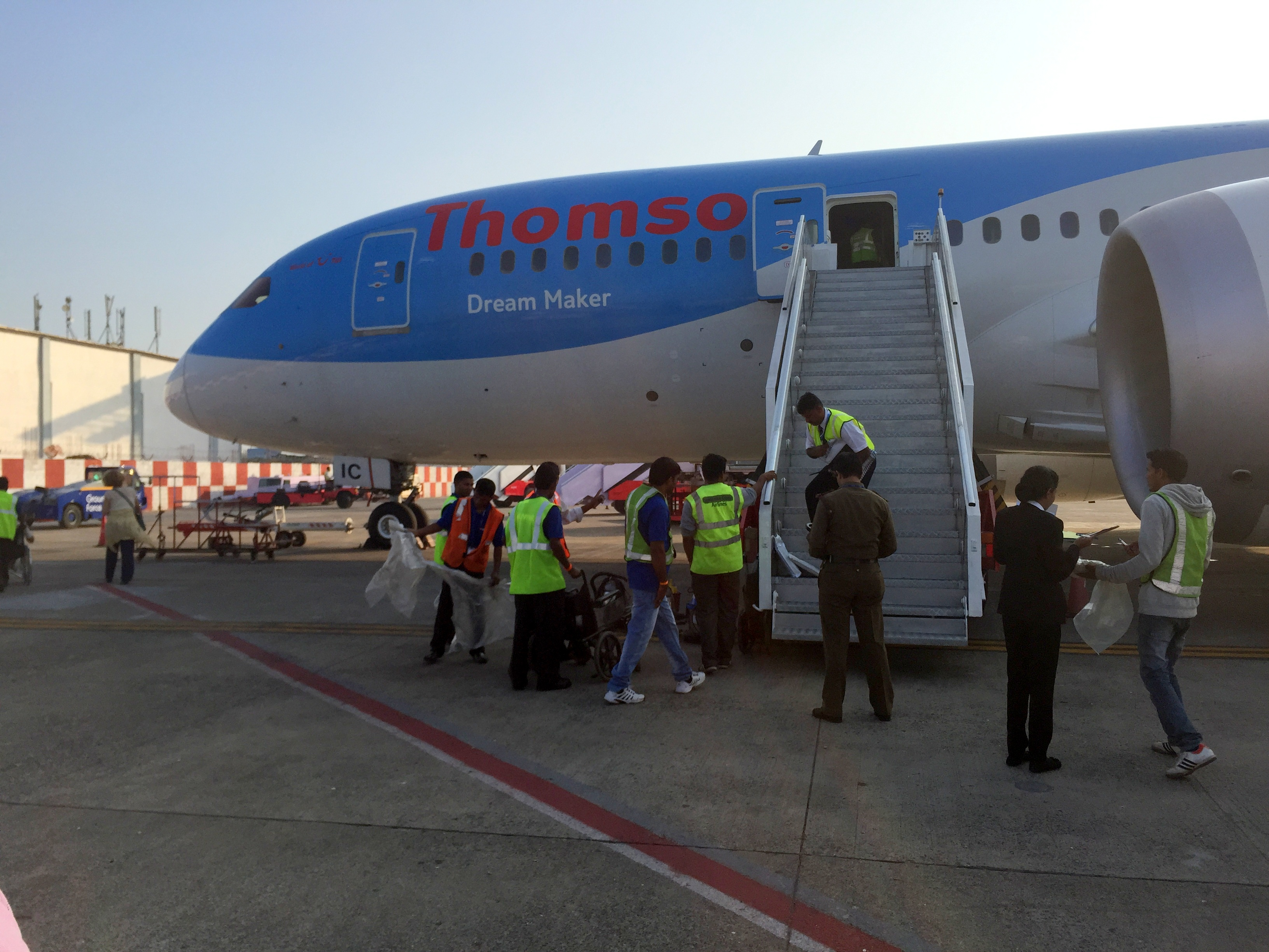 Thomson Airways 787 (G-TUIC) at Goa Airport, India, having arrived from London Gatwick.